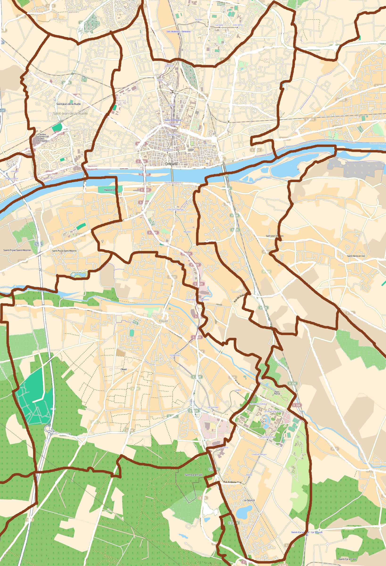 Map of Orléans, France Qafár af: carte d'Orléans, France This map may be incomplete, and may contain errors. Don't rely solely on it for navigation.